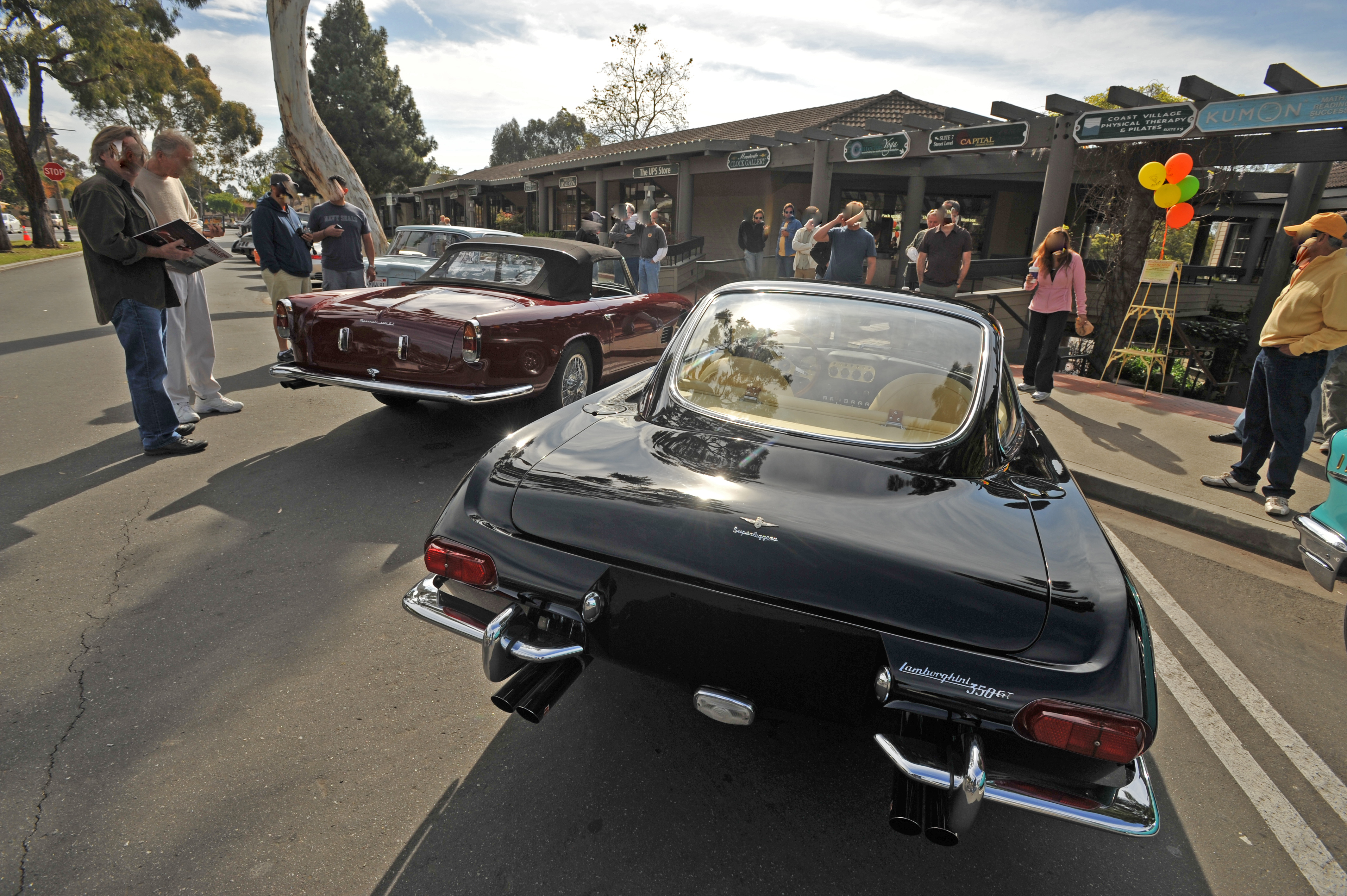 Rear end of a 1965 Lamborghini 350GT.